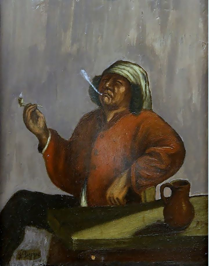 Portrait of a Man Smoking